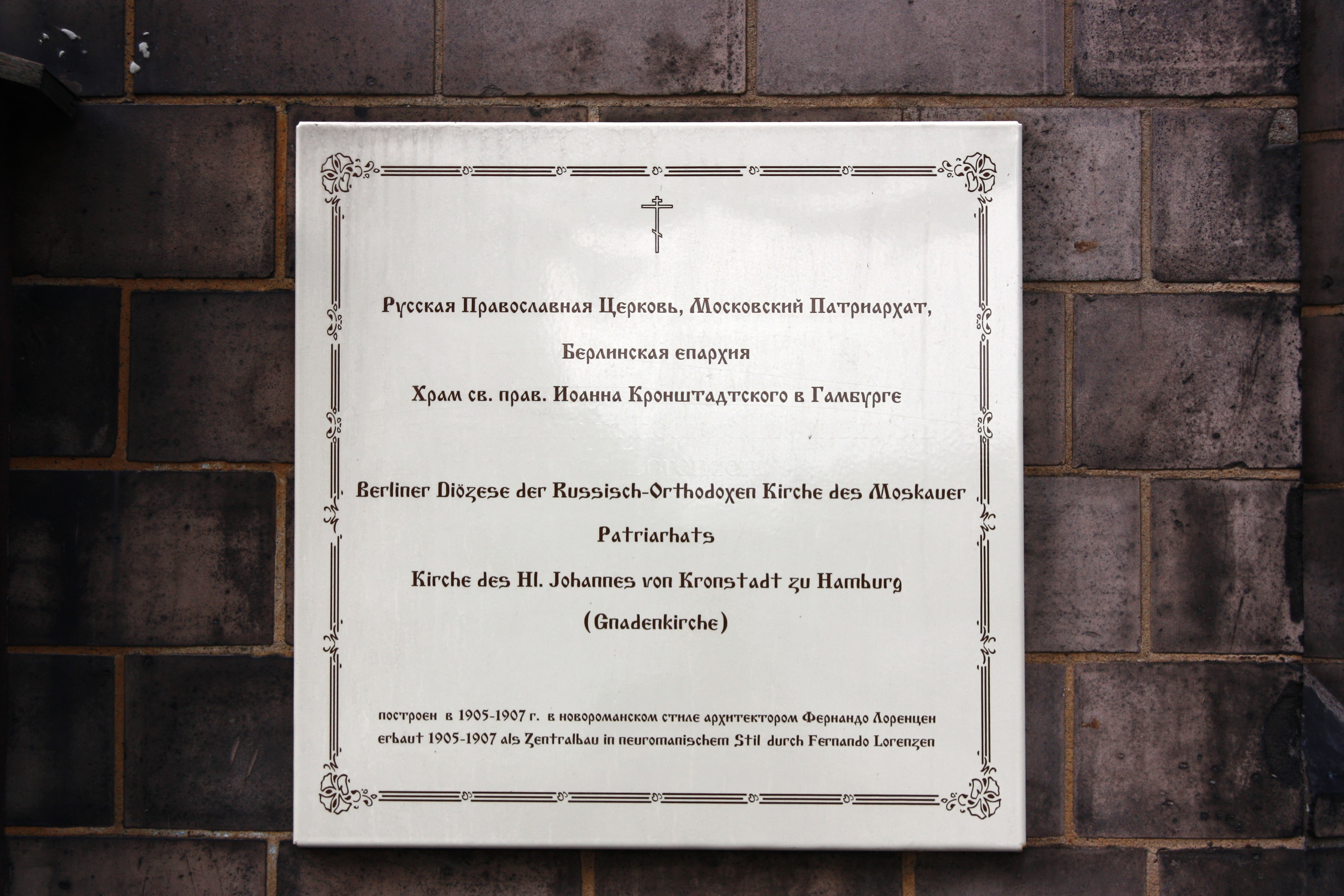 Orthodox church of St. John of Kronstadt in Hamburg-St.Pauli, information plate